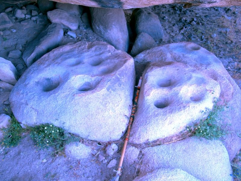 Photo of morteros or grinding holes in the Indian Hill area of Anza-Borrego State Park in southern California.